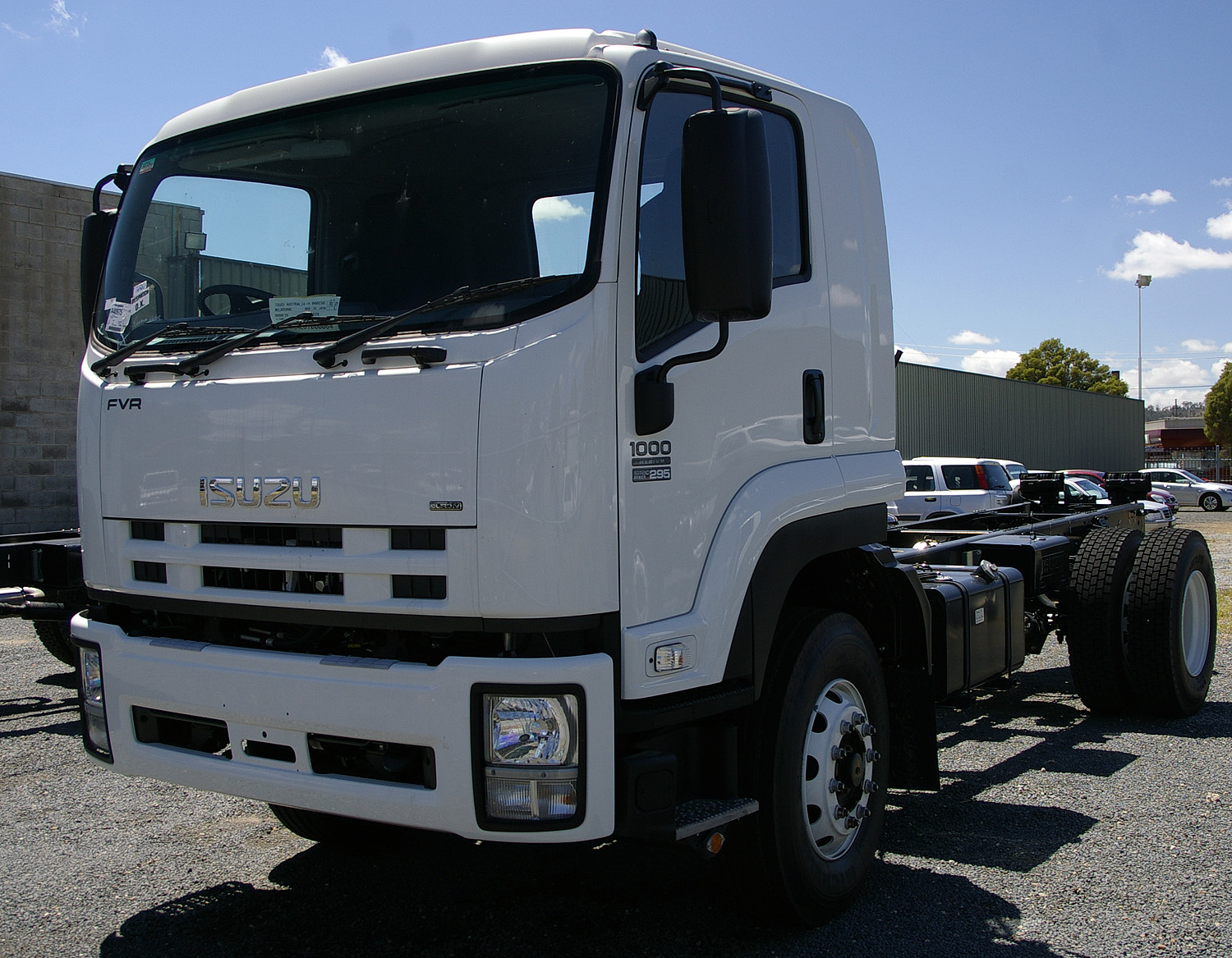 Maker: Isuzu Model: FVR 1000 Engine: Sitec Series II 295